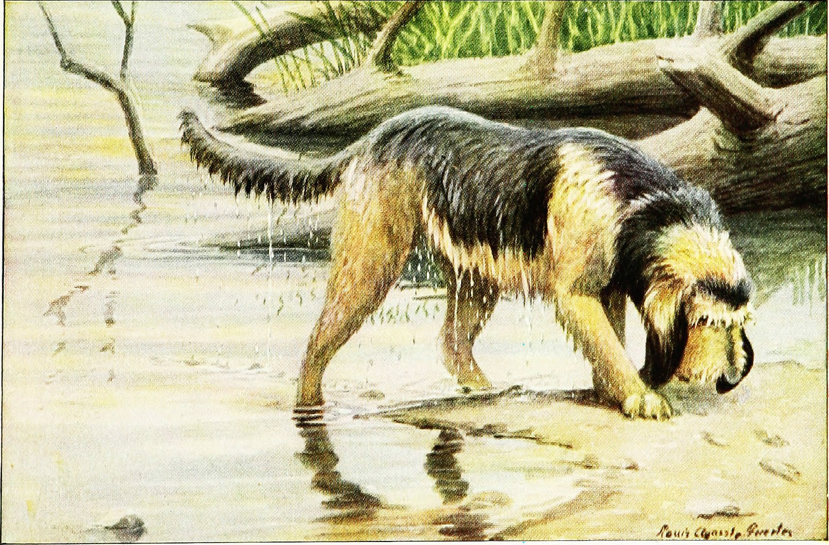 Title: The book of dogs; an intimate study of mankind's best friend Year: 1919 (1910s) Authors: National Geographic Society (U. S. ); Fuertes, Louis Agassiz, 1874-1927; Baynes, Ernest Harold, 1868-1925 Subjects: Dog breeds; Dogs Publisher: Washington, D. C. , The National Geographic Society Text Appearing Before Image: NORWEGIAN ELKHOUND Text Appearing After Image: OTTERHOUND 19